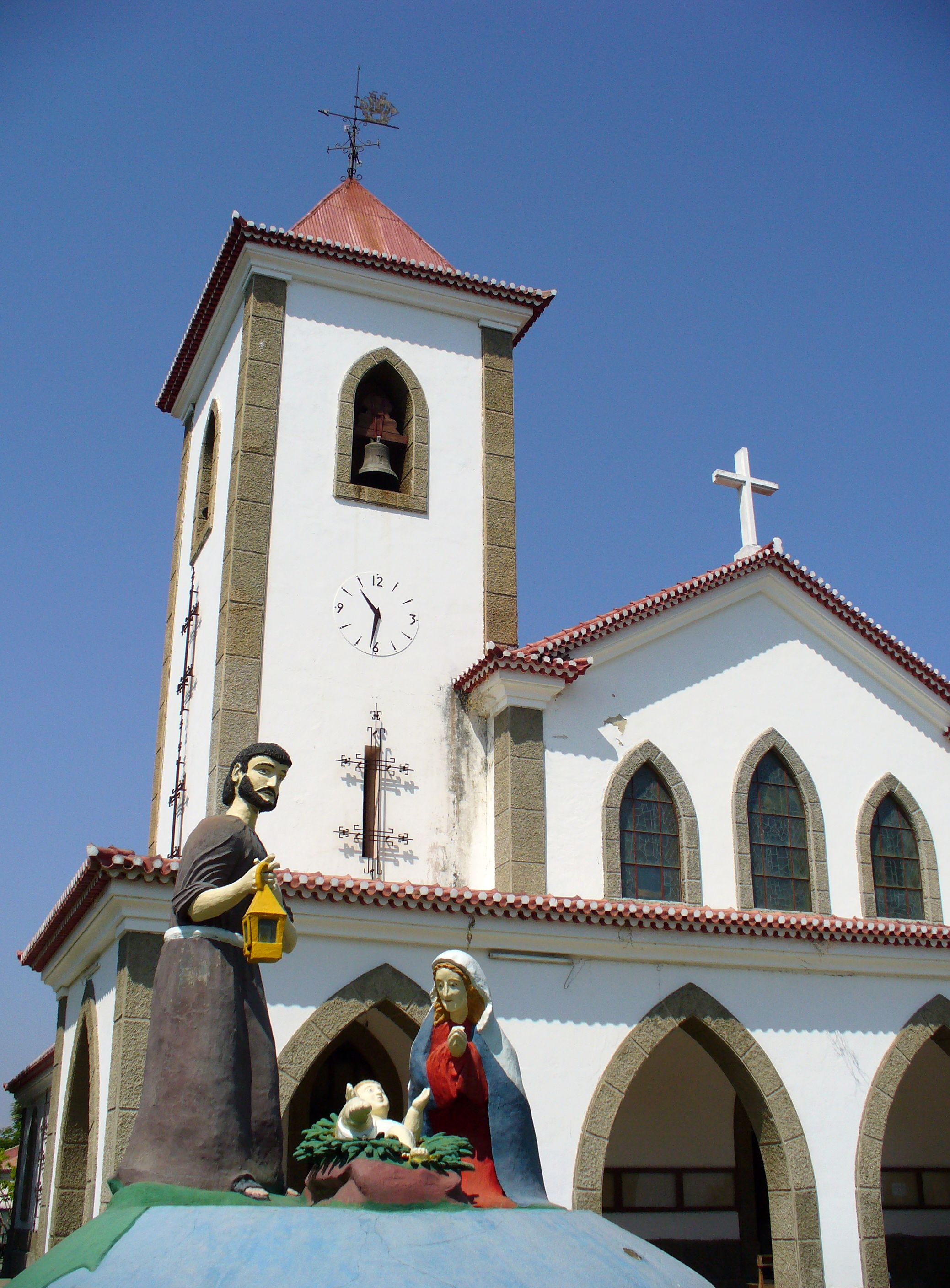 Motael Church, Dili, East Timor